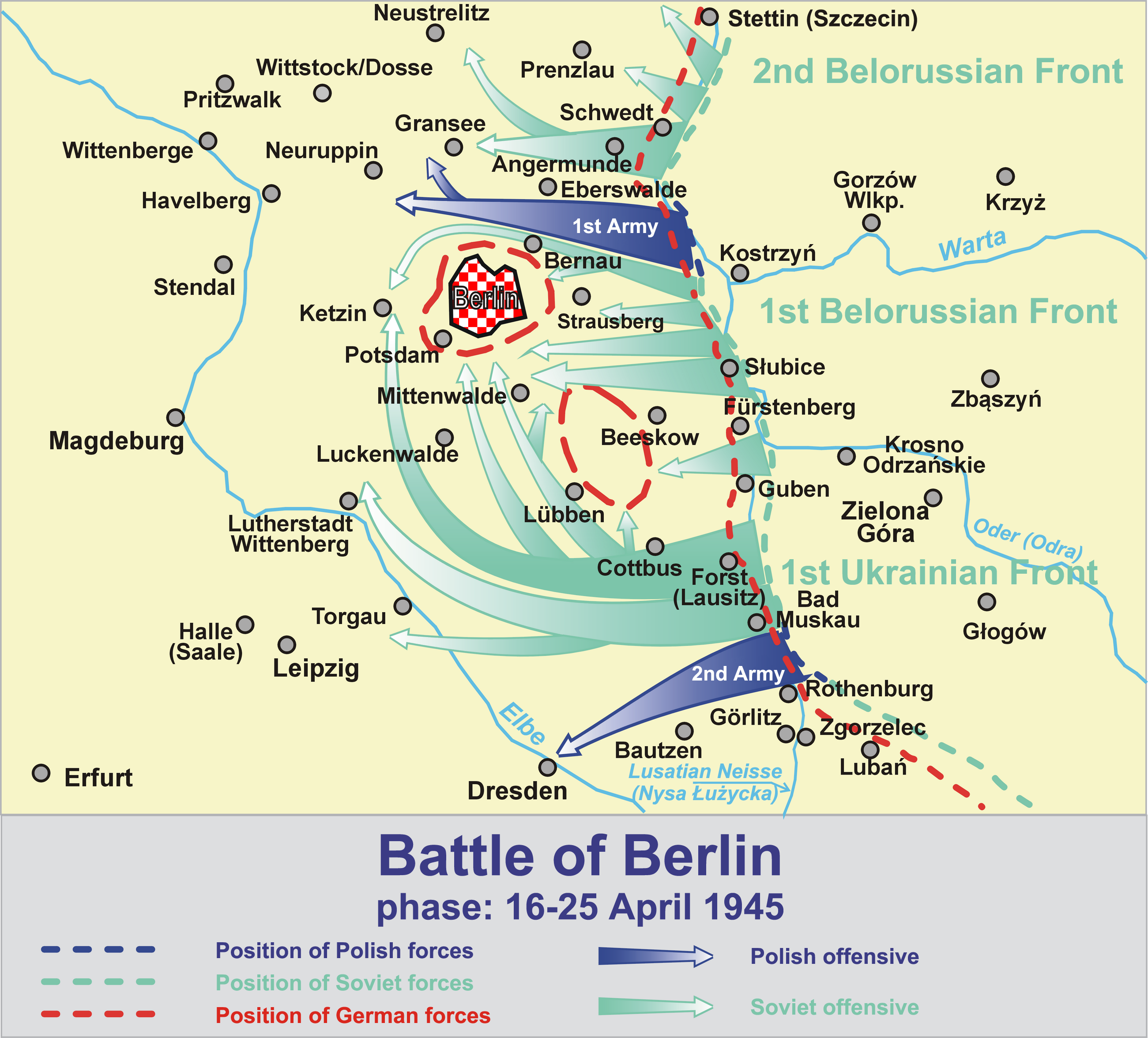 Map of the Battle of Berlin, phase of 16-25 April 1945.